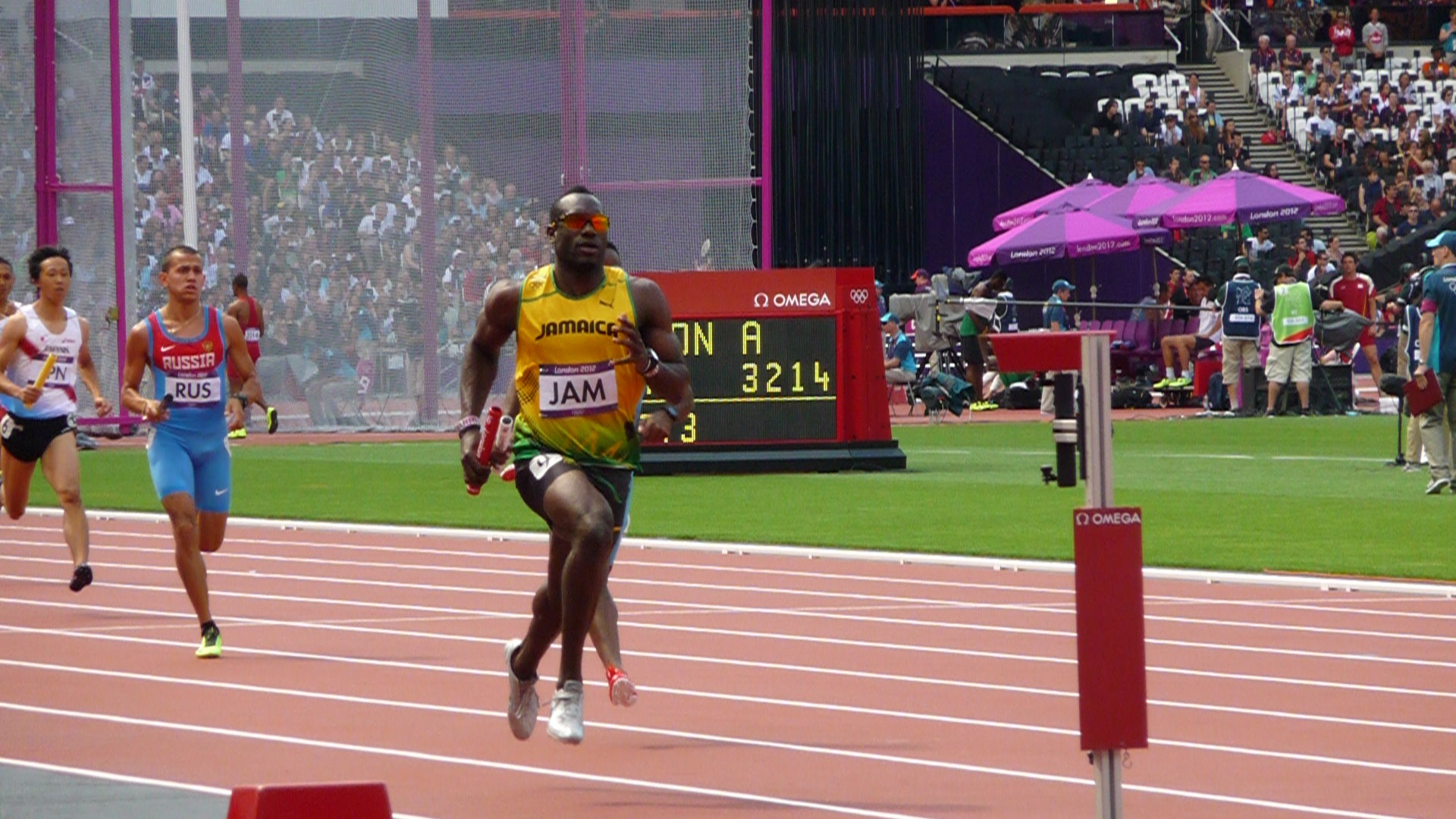 Athletics event — Olympic Park London 2012, Kei Takase, Maksim Dyldin, Dane Hyatt